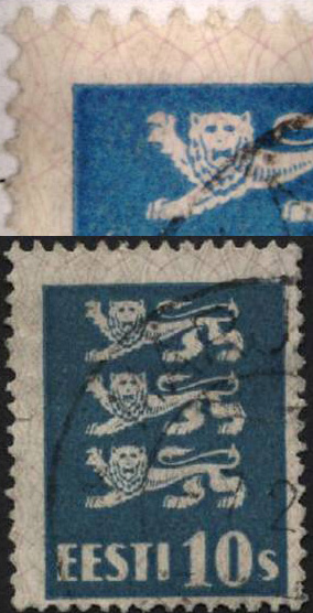 Estonia 1928-35 10s stamp with lilac network magnified